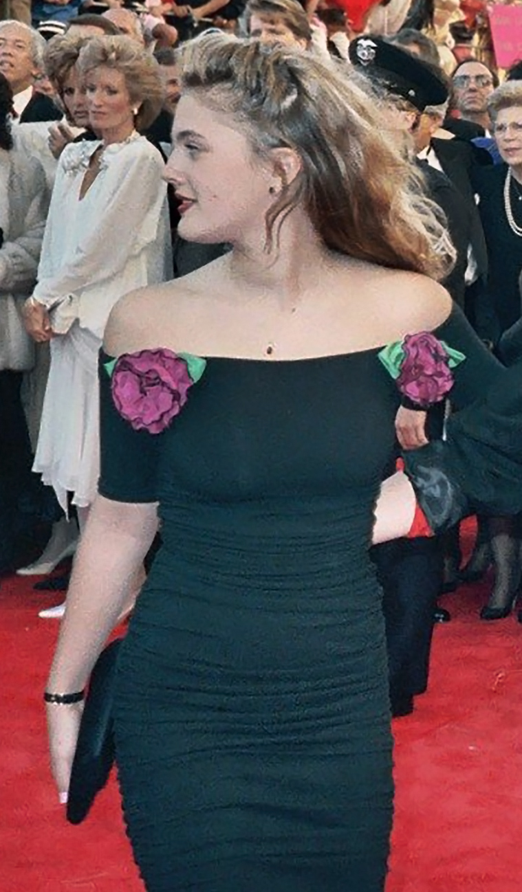 Drew Barrymore at the 61st Academy Awards 3/29/89 depicted person: Drew Barrymore (age: 14.10)